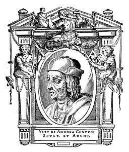 Illustratio from "Le Vite" by Giorgio Vasari, edition of 1568. For the artist portrayed see filename